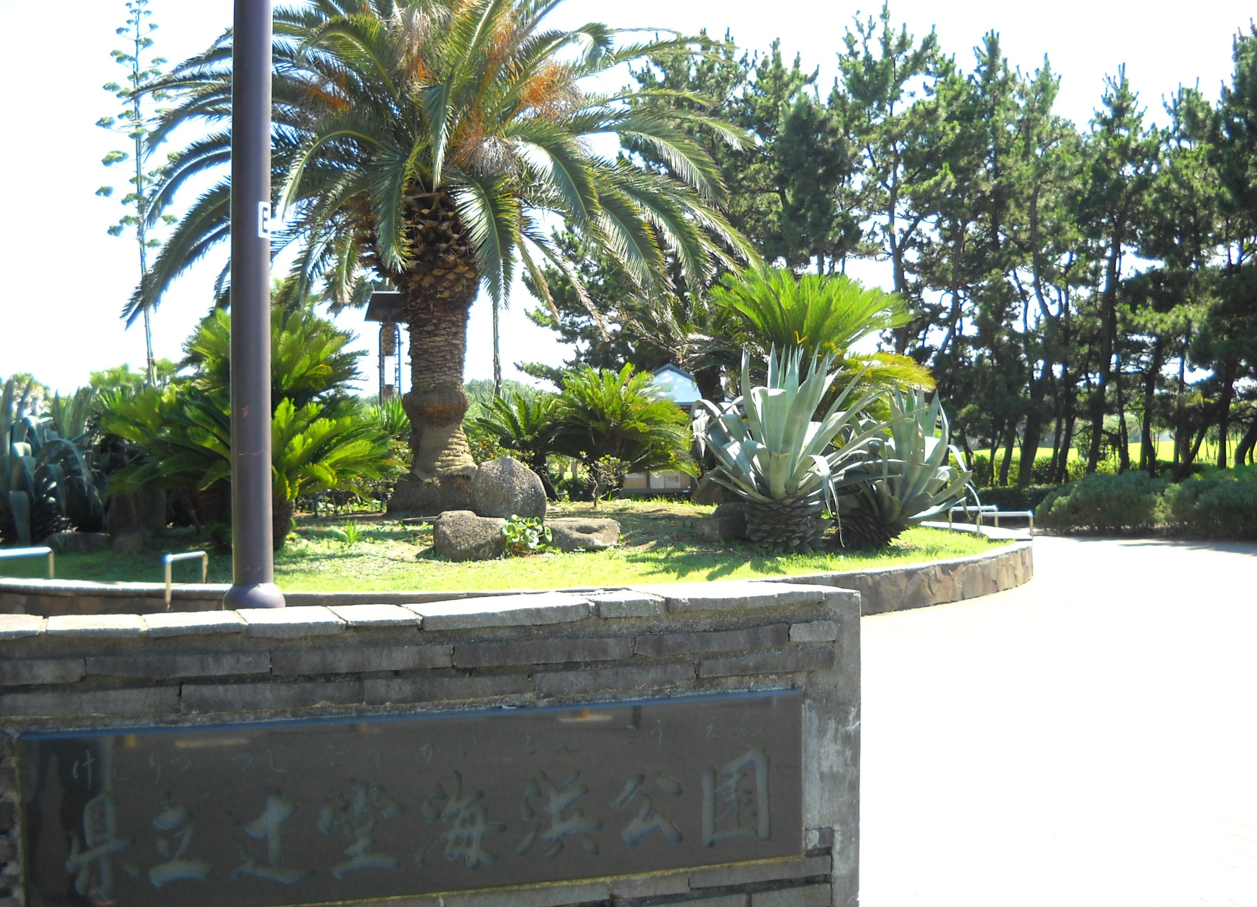 Tsujido kaihin park, Fujisawa city, Kanagawa pref., Japan